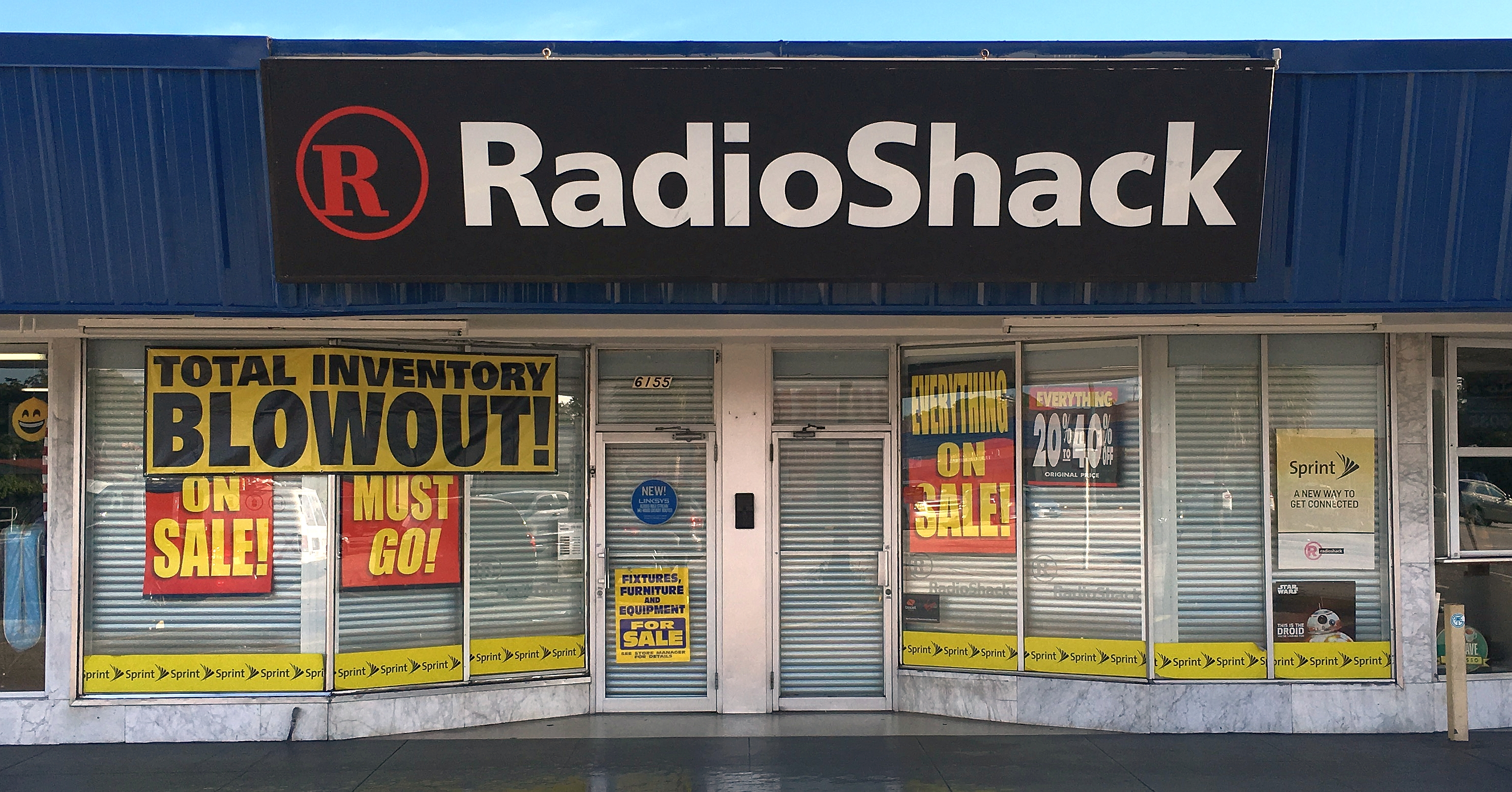 Closing of a Radio Shack in West Miami, Florida.